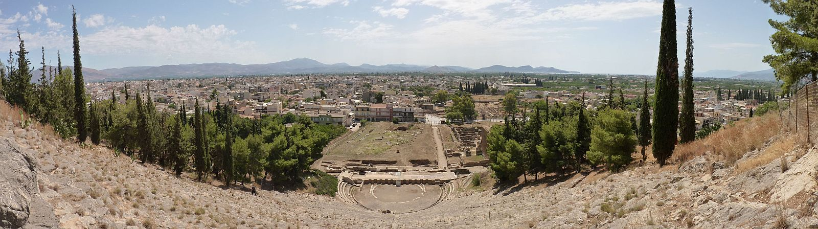 The Theatre of Ancient Argos - more information visit Ploync